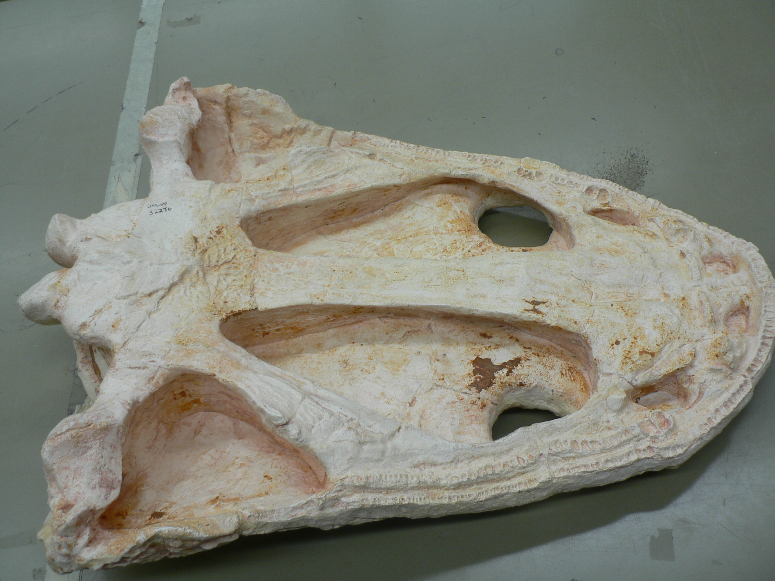 Metoposaurus skull - ventral view. UALVP.